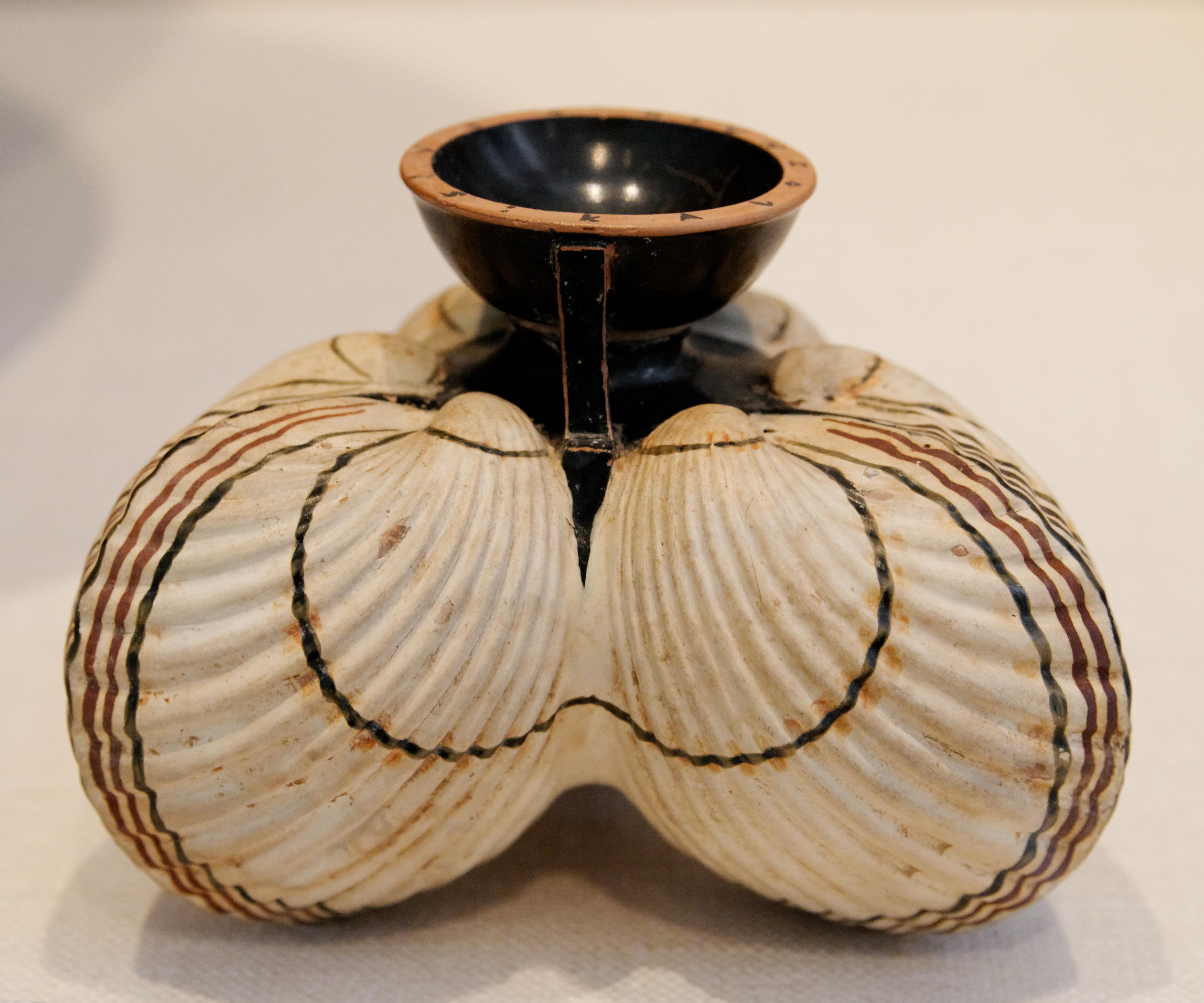 Attic white-ground aryballos in the form of three cockleshells.